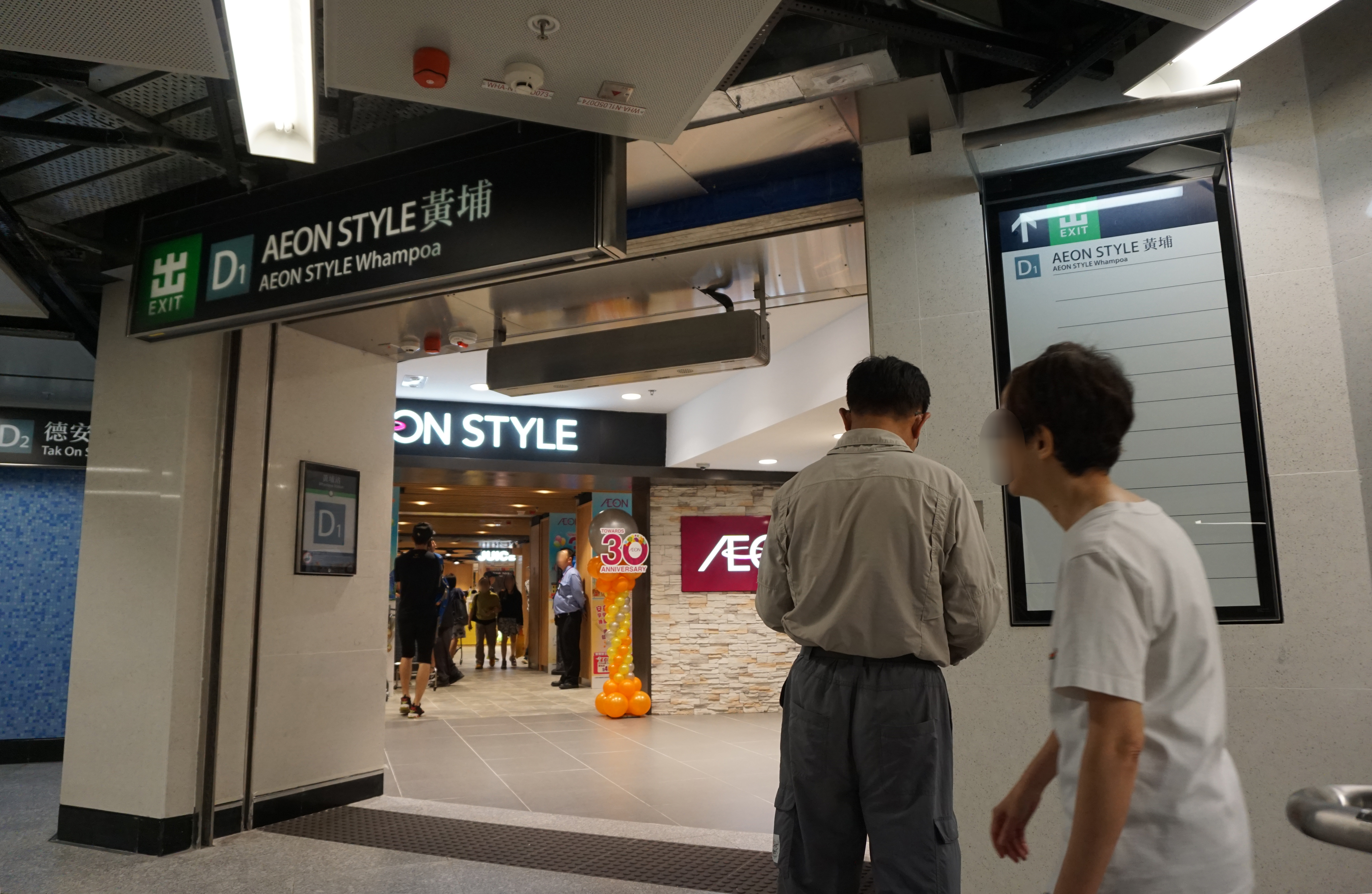 Whampoa Station in Hung Hom, Hong Kong.